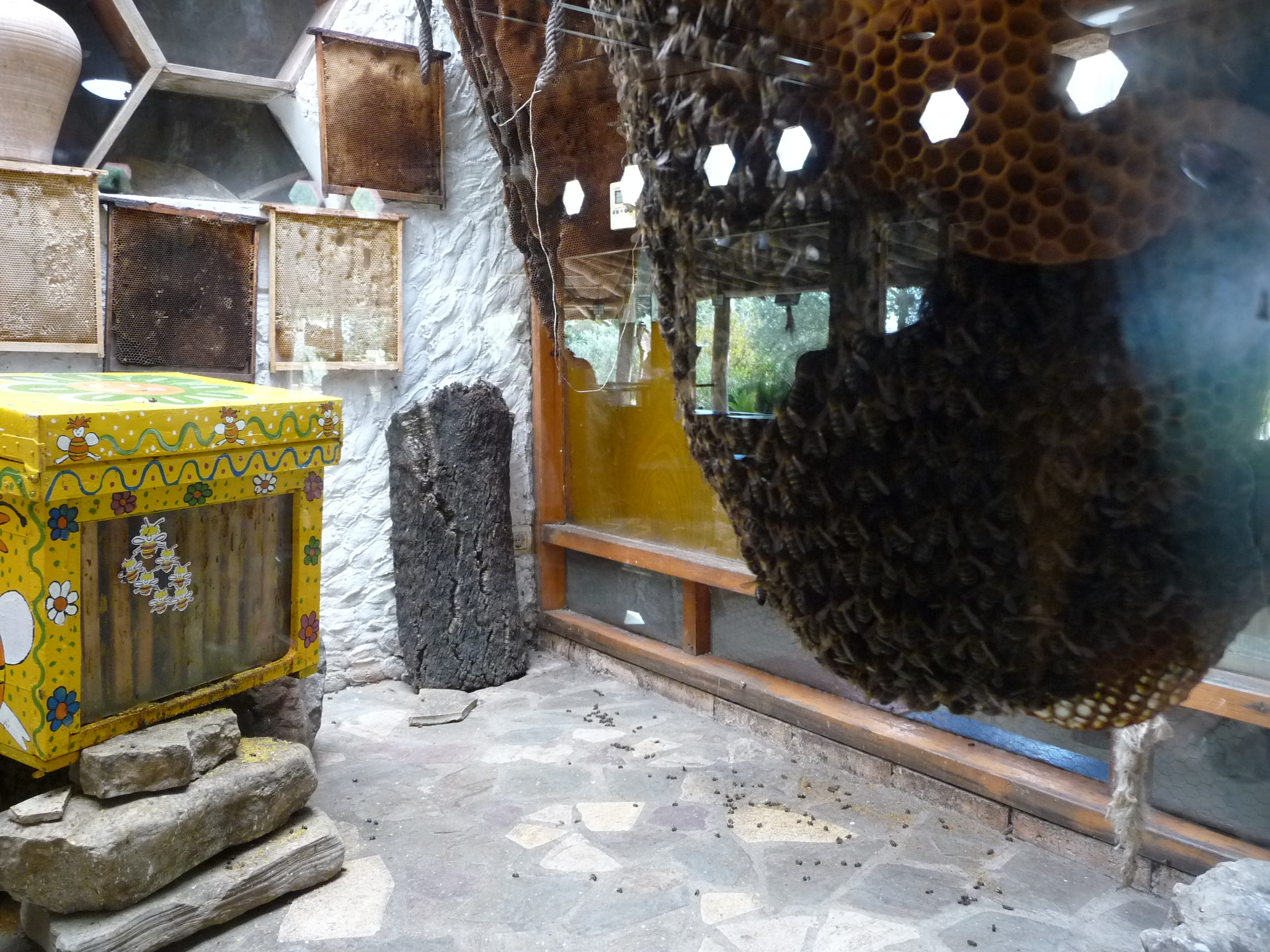 Bees in the Museum of Honey, at San Isidro del Guadalete (Jerez de la Frontera). Andalusia, Spain